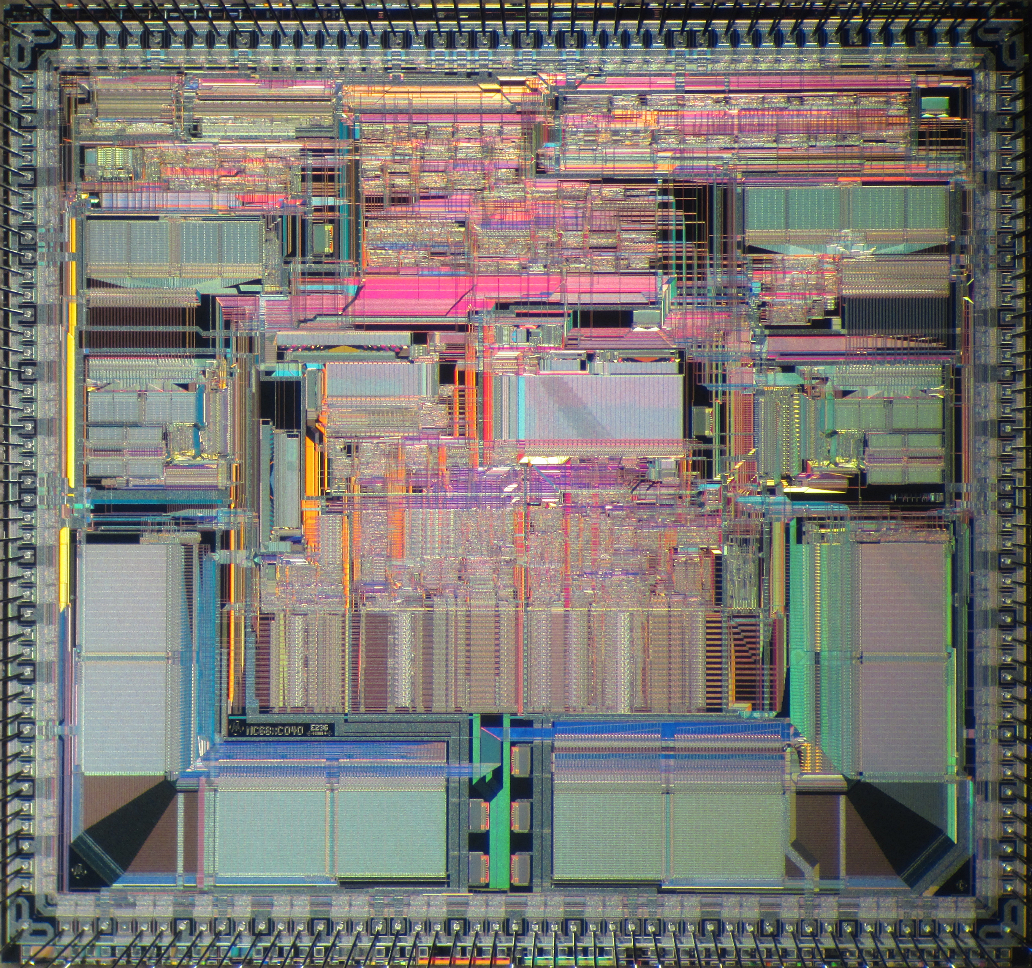 Die shot of Motorola 68LC040 microprocessor (XC68LC040RC33B, 02E23G mask).